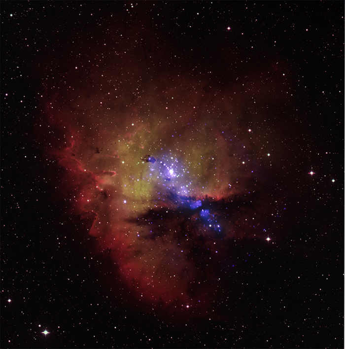 NGC 281 is a bustling hub of star formation about 10,000 light years away. This composite image of optical and X-ray emission includes regions where new stars are forming and older regions containing stars about 3 million years old. The optical data (seen in red, orange, and yellow) show a small open cluster of stars, large lanes of obscuring gas and dust, and dense knots where stars may still be forming. The X-ray data (purple), based on a Chandra observation lasting more than a day, shows a different view. More than 300 individual X-ray sources are seen, most of them associated with IC 1590, the central cluster. The edge-on aspect of NGC 281 allows scientists to study the effects of powerful X-rays on the gas in the region, the raw material for star formation. A second group of X-ray sources is seen on either side of a dense molecular cloud, known as NGC 281 West, a cool cloud of dust grains and gas, much of which is in the form of molecules. The bulk of the sources around the molecular cloud are coincident with emission from polycyclic aromatic hydrocarbons, a family of organic molecules containing carbon and hydrogen. There also appears to be cool diffuse gas associated with IC 1590 that extends toward NGC 281 West. The X-ray spectrum of this region shows that the gas is a few million degrees and contains significant amounts of magnesium, sulfur and silicon. The presence of these elements suggests that supernova recently went off in that area.